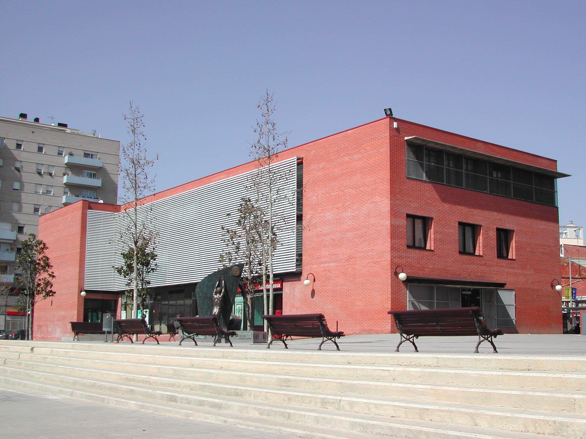 Polytechnical University Library, Terrassa.